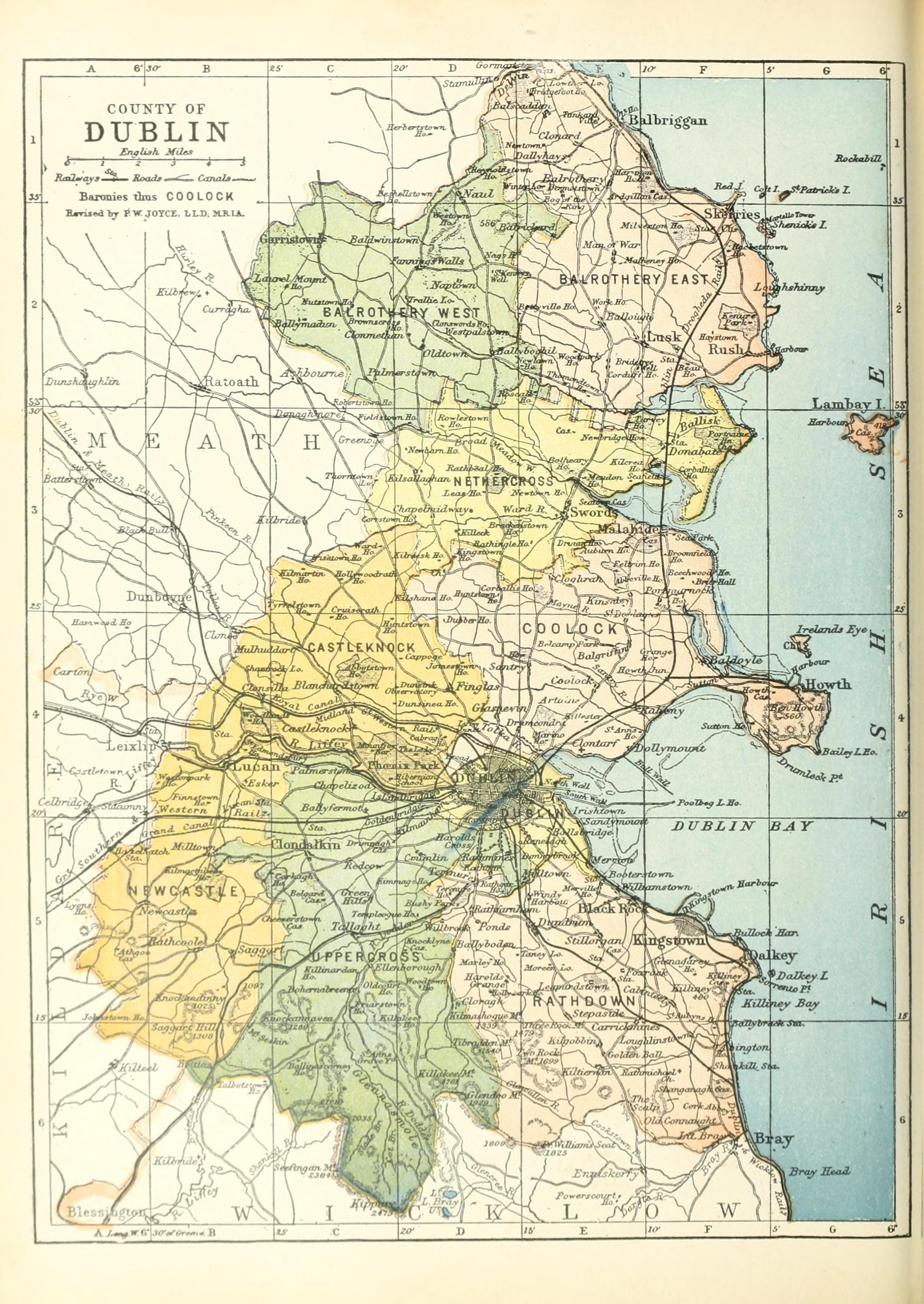 Map of the baronies of County Dublin in Ireland; taken from Atlas and cyclopedia of Ireland, p.105